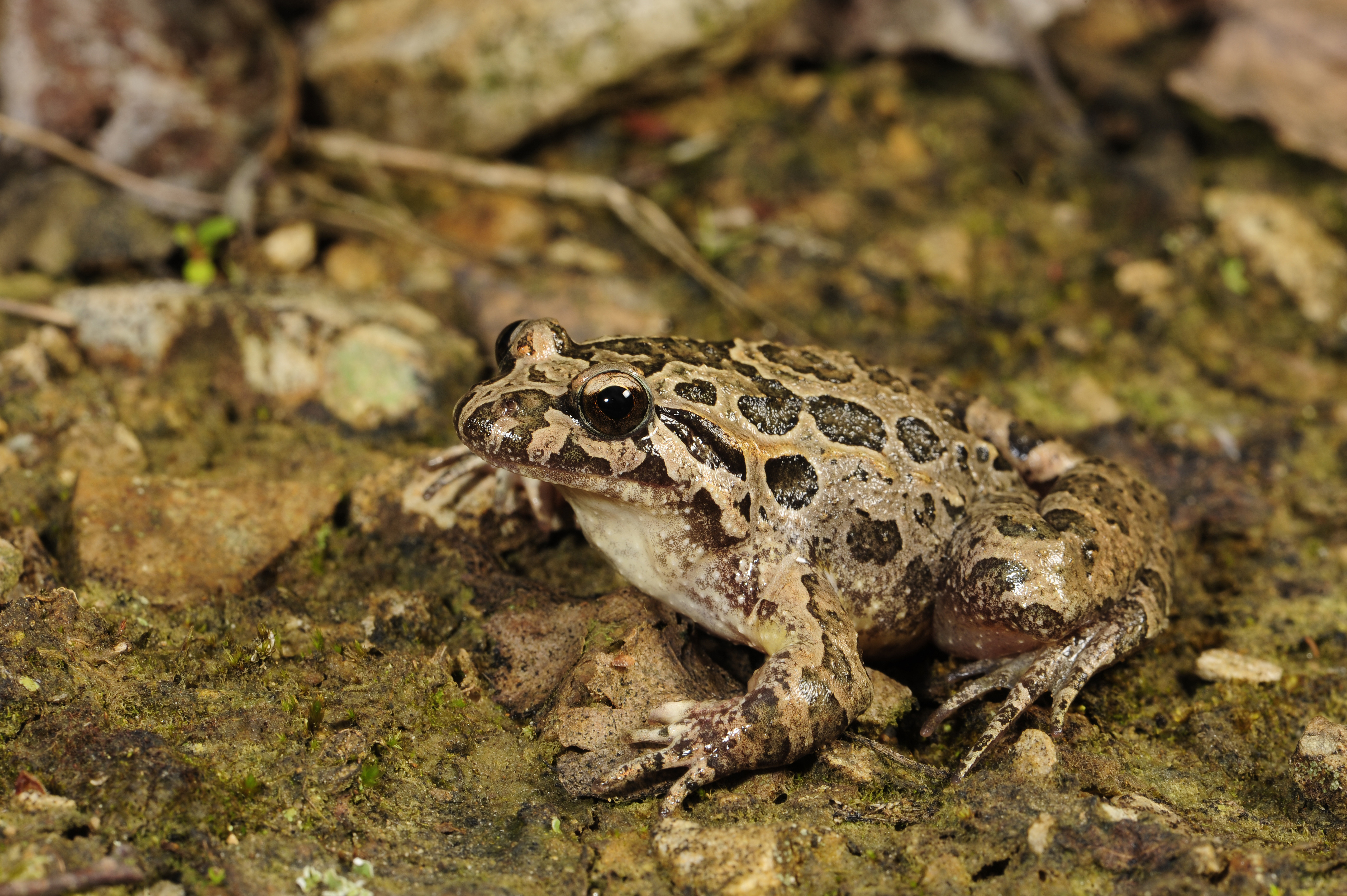 Discoglossus galganoi jeannaea from Andalusia, Spain